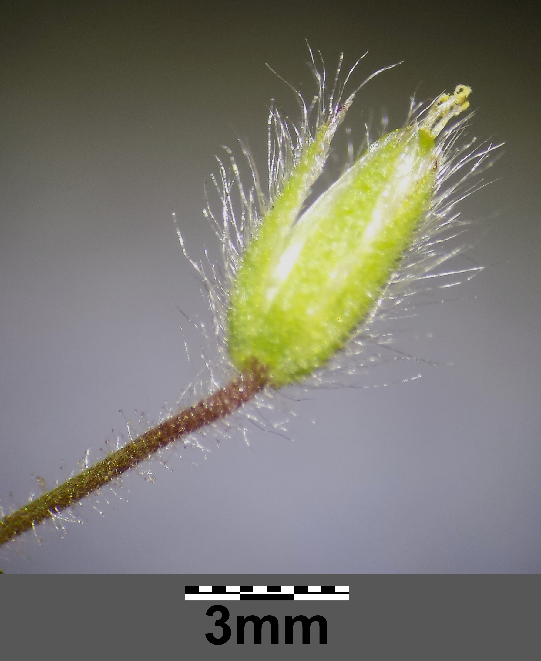 Fruit with hairy sepals Taxonym: Cerastium brachypetalum s. str. ss Fischer et al. EfÖLS 2008 ISBN 978-3-85474-187-9 Location: Neue Donau, Vienna-Floridsdorf - ca. 160 m a.s.l. Habitat: stony, dry area